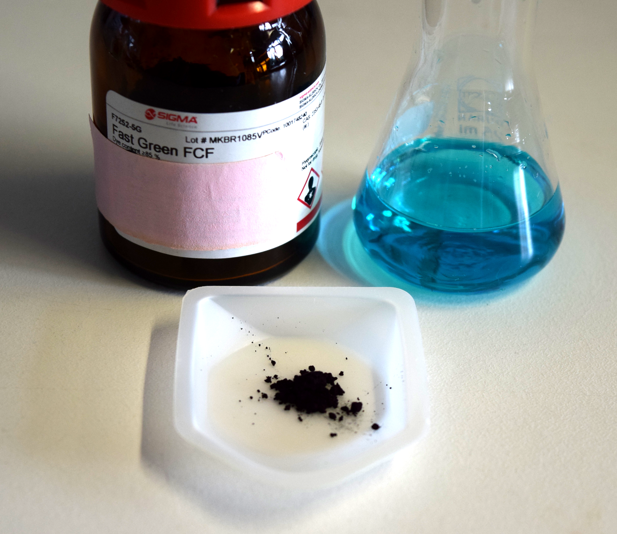 A sample of the dye Fast Green FCF. And of Fast Green FCF diluted in water.